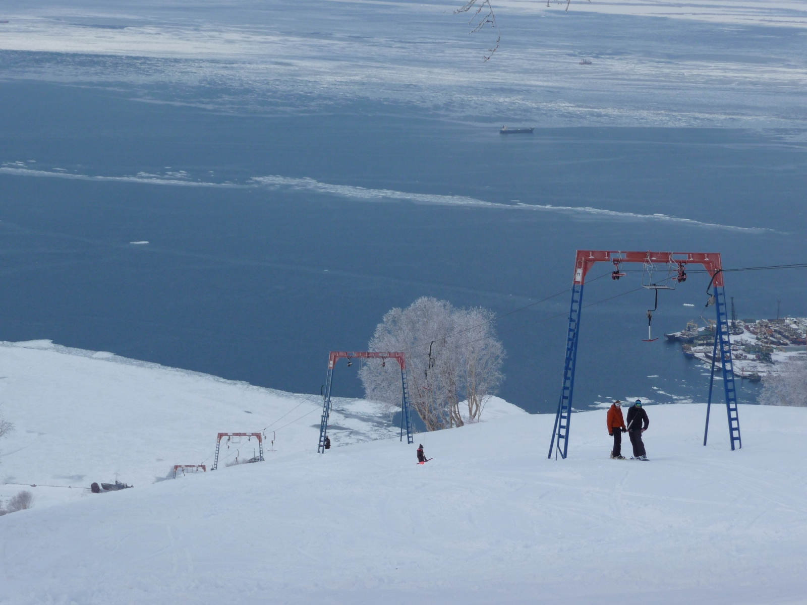 Ski resort "Red Hill" ("Krasnaya Sopka") in Petropavlovsk-Kamchatsky